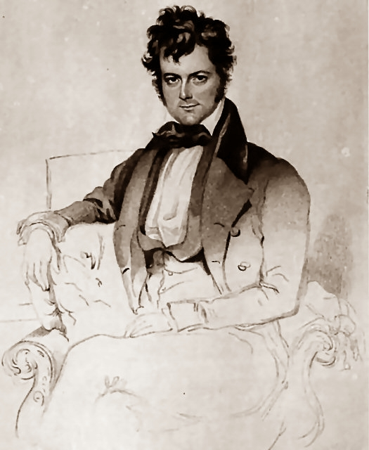 Actor Edwin Forrest